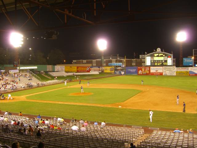 Nick Juhasz created. 06:03, 5 September 2006 . . Nick81aku . . 640×480 (86 KB)